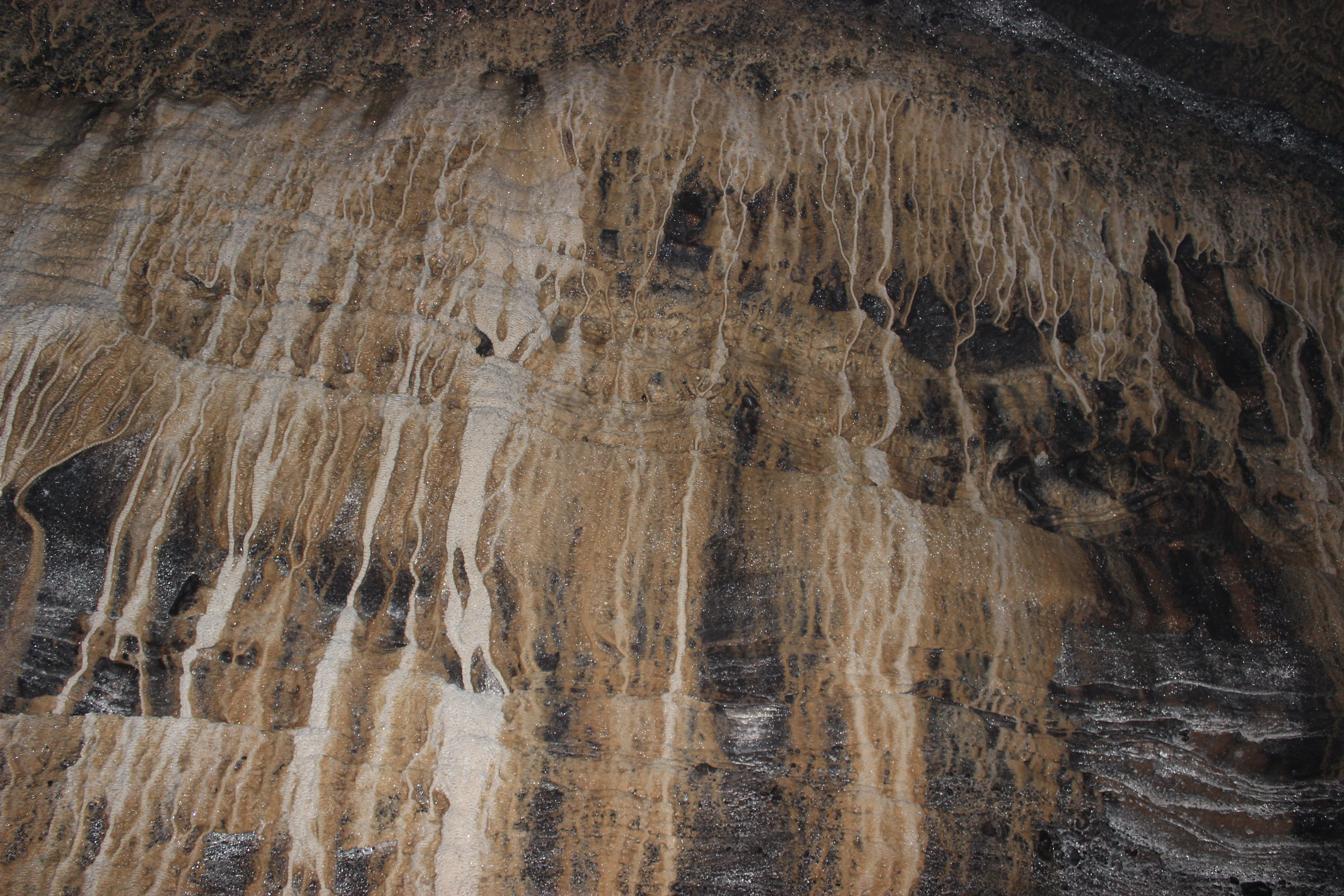 Gupteshwor Cave